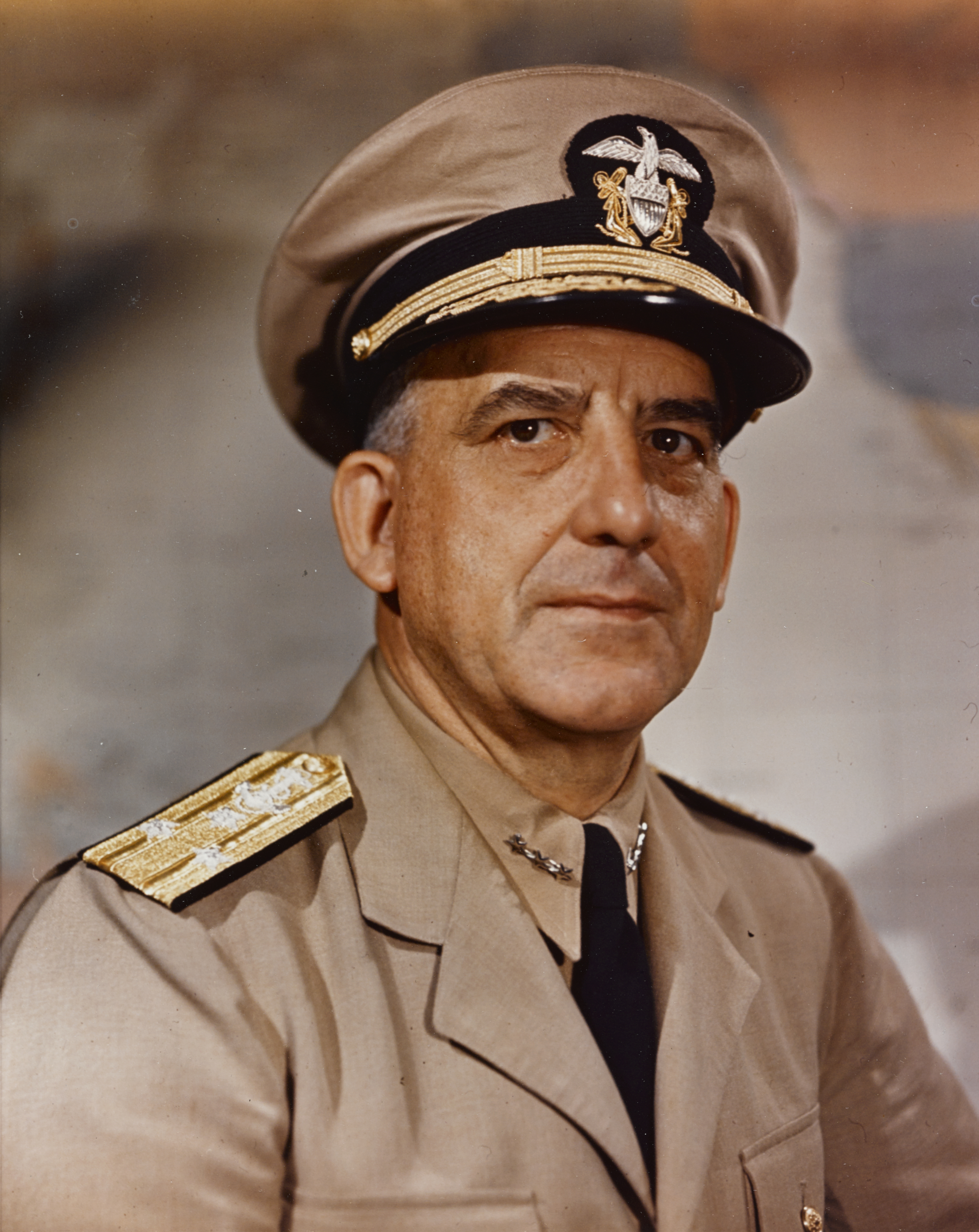 Vice Admiral Daniel E. Barbey, U.S. Navy, on 23 July 1945.